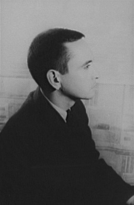 Photo of playwright Edward Albee.Portrait of Edward Albee, 1961